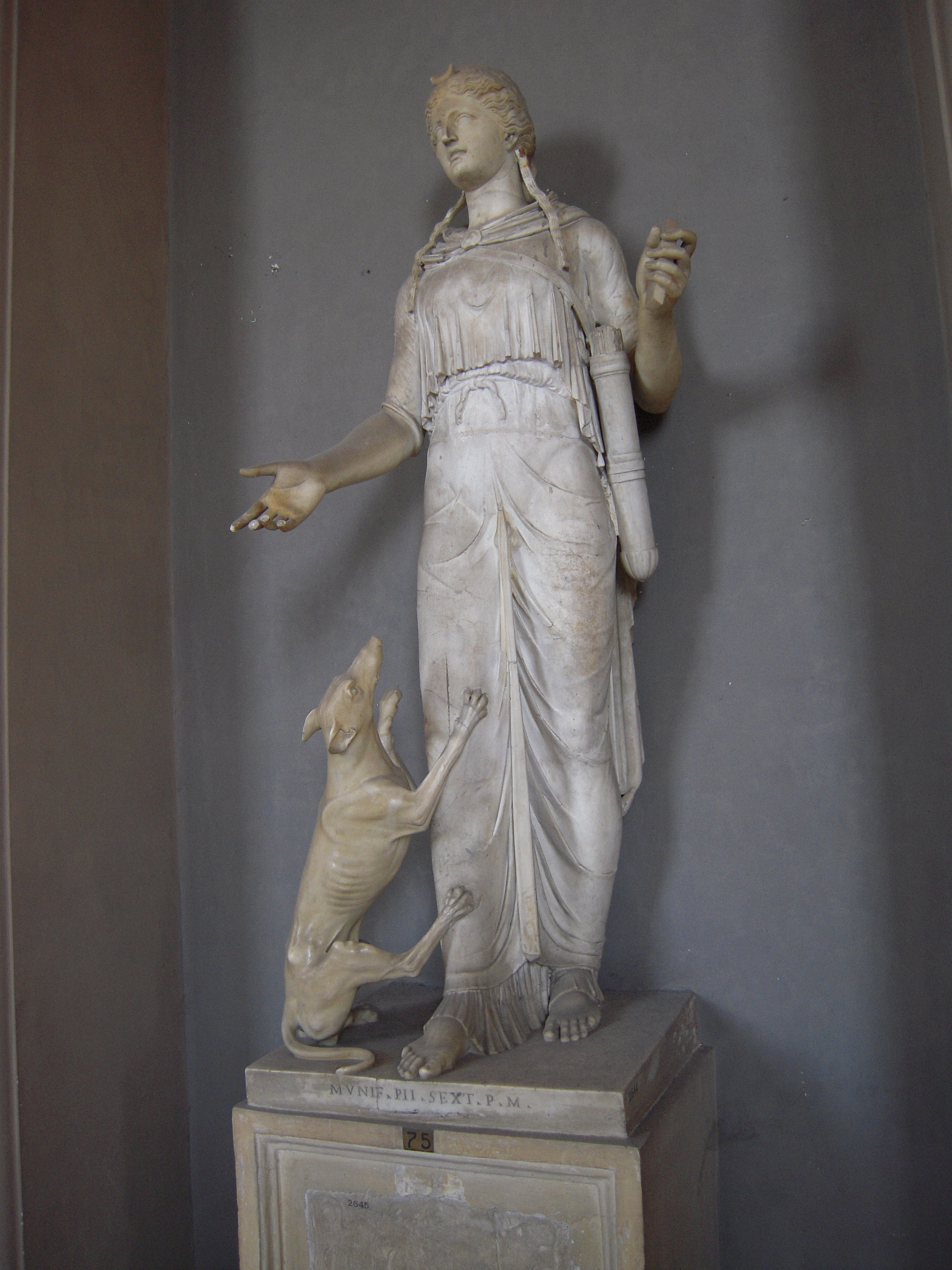 The history of the statue is interesting. Although her body appears to be female, it is a fifth century BC Greek statue of the god Apollo with the head of a second century Roman Diana. She is identified as the goddess of the moon because of the lunar crescent on her forehead, and of the hunt as shown by the Greyhound and the quiver at her side, which were carved and attached in the late 18th century by a local sculptor.